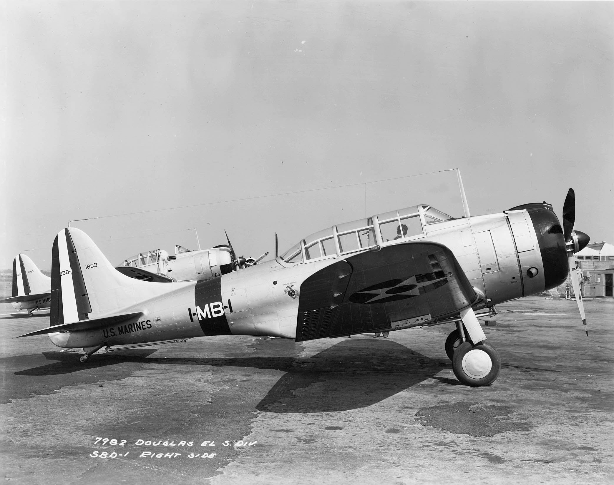 Two Douglas SBD-1 Dauntless dive bombers (BuNo 1603, 1605) assigned to Marine bombing squadron VMB-1 pictured on the ground, possibly at the El Segundo Division of Douglas Aircraft Company, in 1940. Note the bare metal paint schemes coupled with section markings and the Marine Corps emblem on the fuselage. VMB-1 and VMB-2 were the first squadrons to receive the Dauntless, taking delivery of their first SBD-1s in 1940. VMB-1 was redesignated Marine Scout Bombing Squadron 132 (VMSB-132) in July 1941.